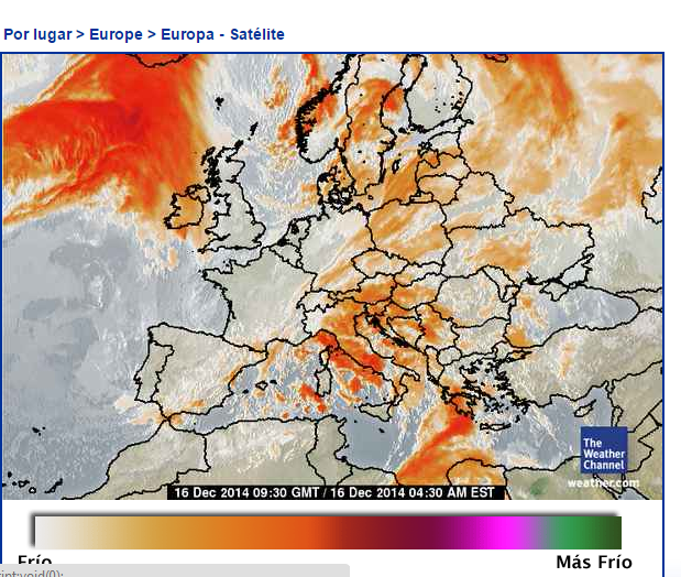 map, thermographic